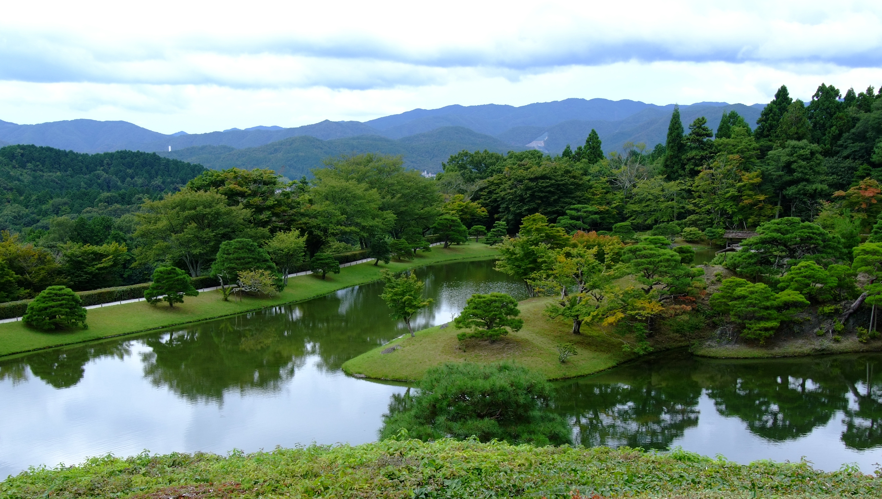 Shugakuin Imperial Villa, at Kyoto Japan.